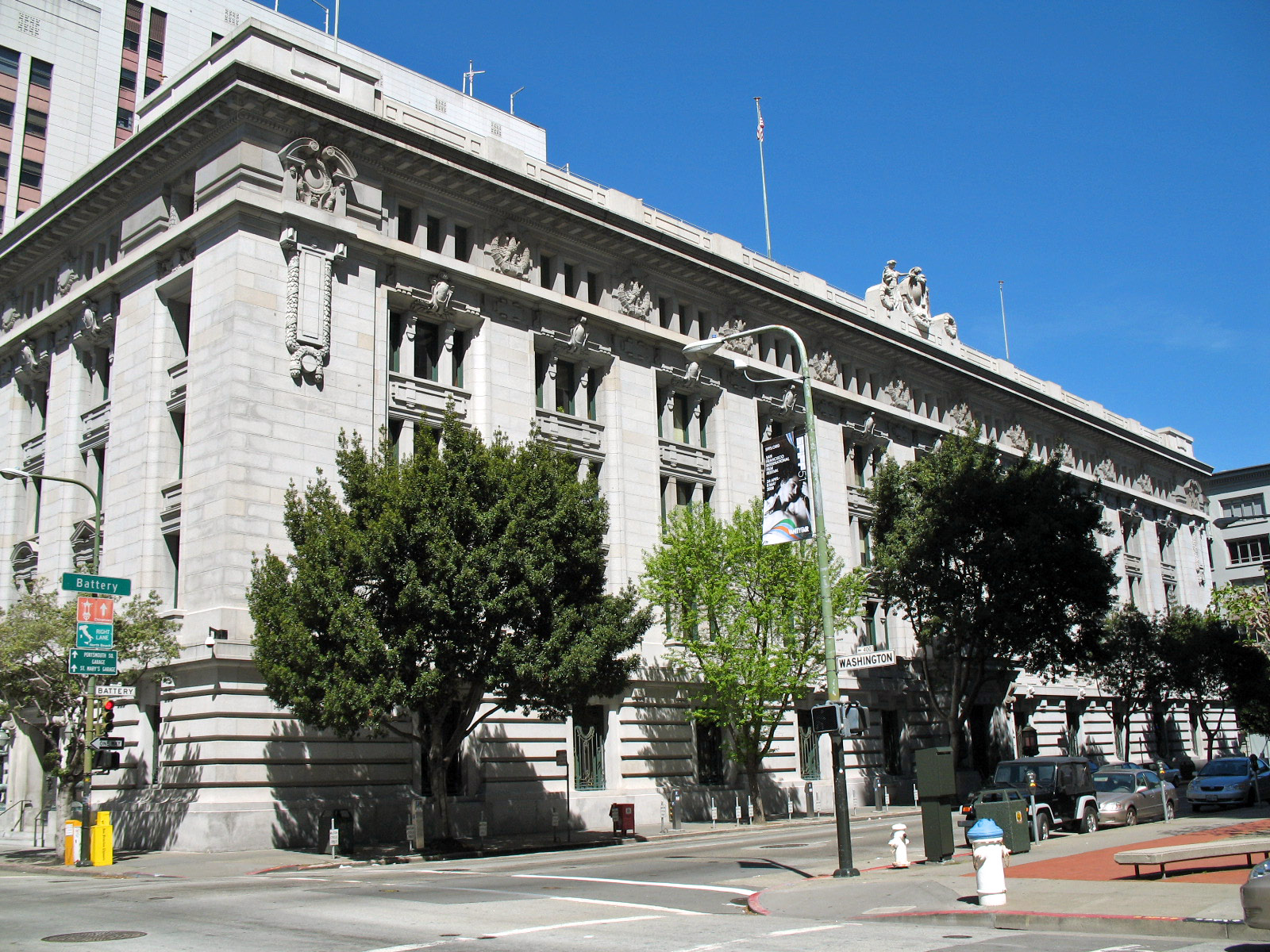 National Register of Historic Places in San Francisco, California. U. S. Customhouse, 555 Battery St, San Francisco, California, USA. Photographed 2008-04-27 by Mike Hofmann from the southeast corner of Washington and Battery Sts.